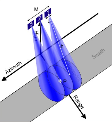 Diagram showing SAR elements in order to explain resolution